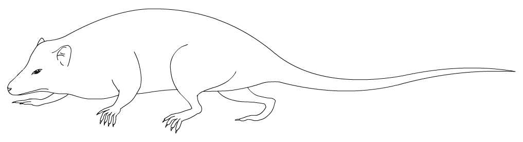 Description: Picture made by mateus zica in October 2005 Mateus Zica Wikipedia User Page is: This image is free to use in anywhere. If you gonna use it ,just send me a email telling me where its gonna be used.Thanks. Source: Mateus Zica